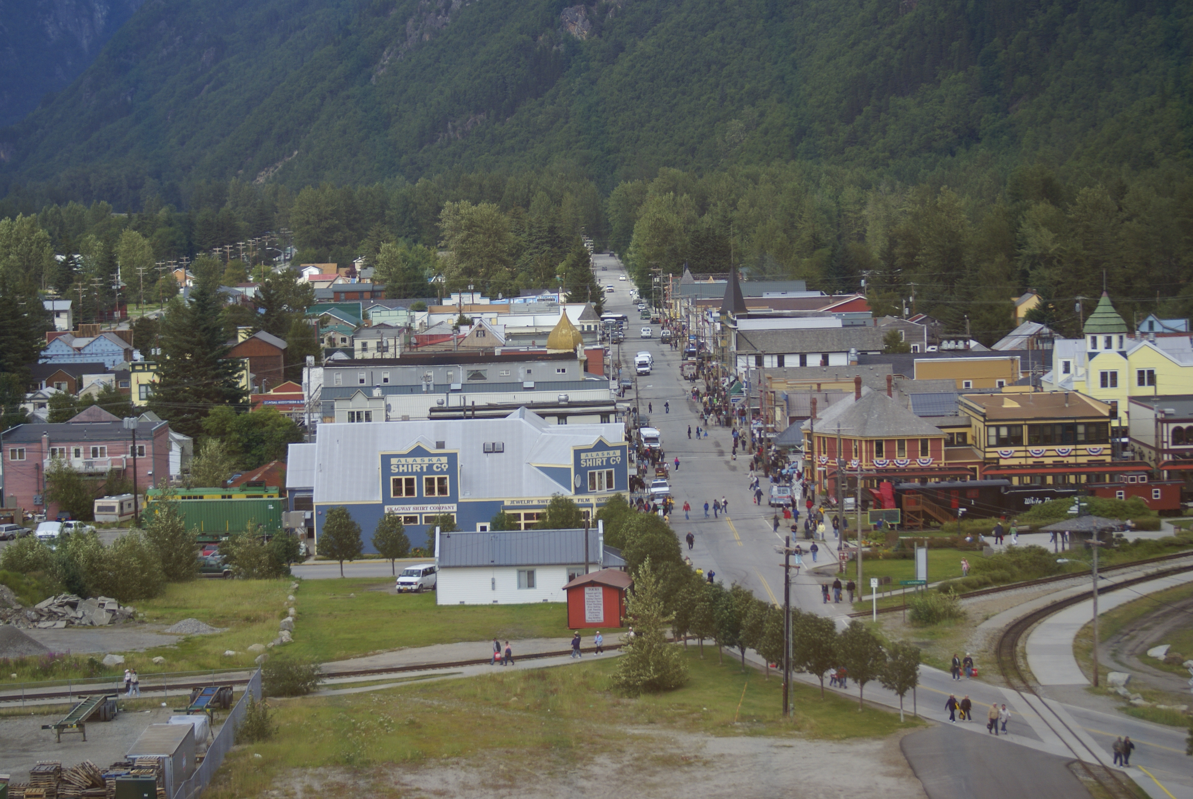 View up Broadway from upper deck of a docked cruise ship, Skagway, Alaska.